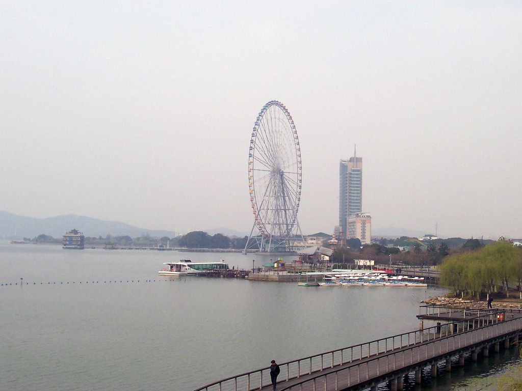 Lihu Park